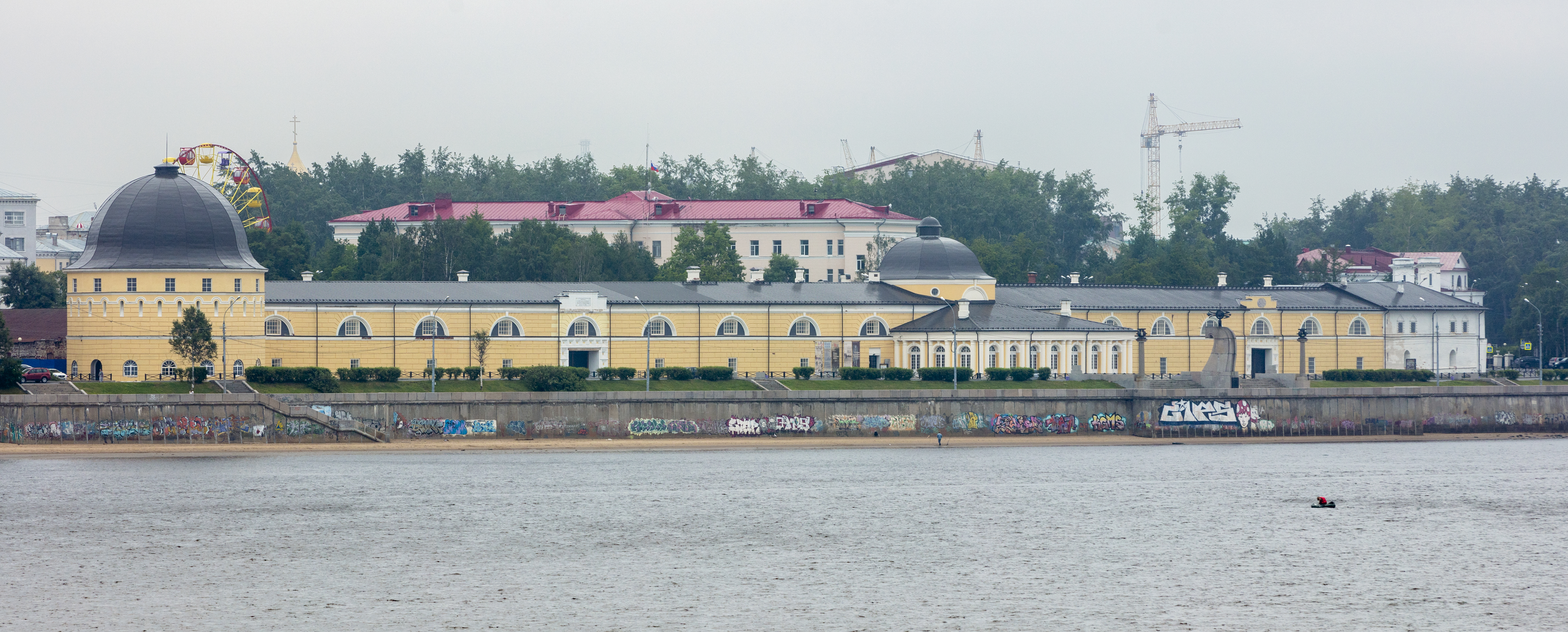 Arkhangelsk Gostiny Dvor, part of a network of indoor markets built c 1775. There has been extensive restoration/reconstruction of the original.